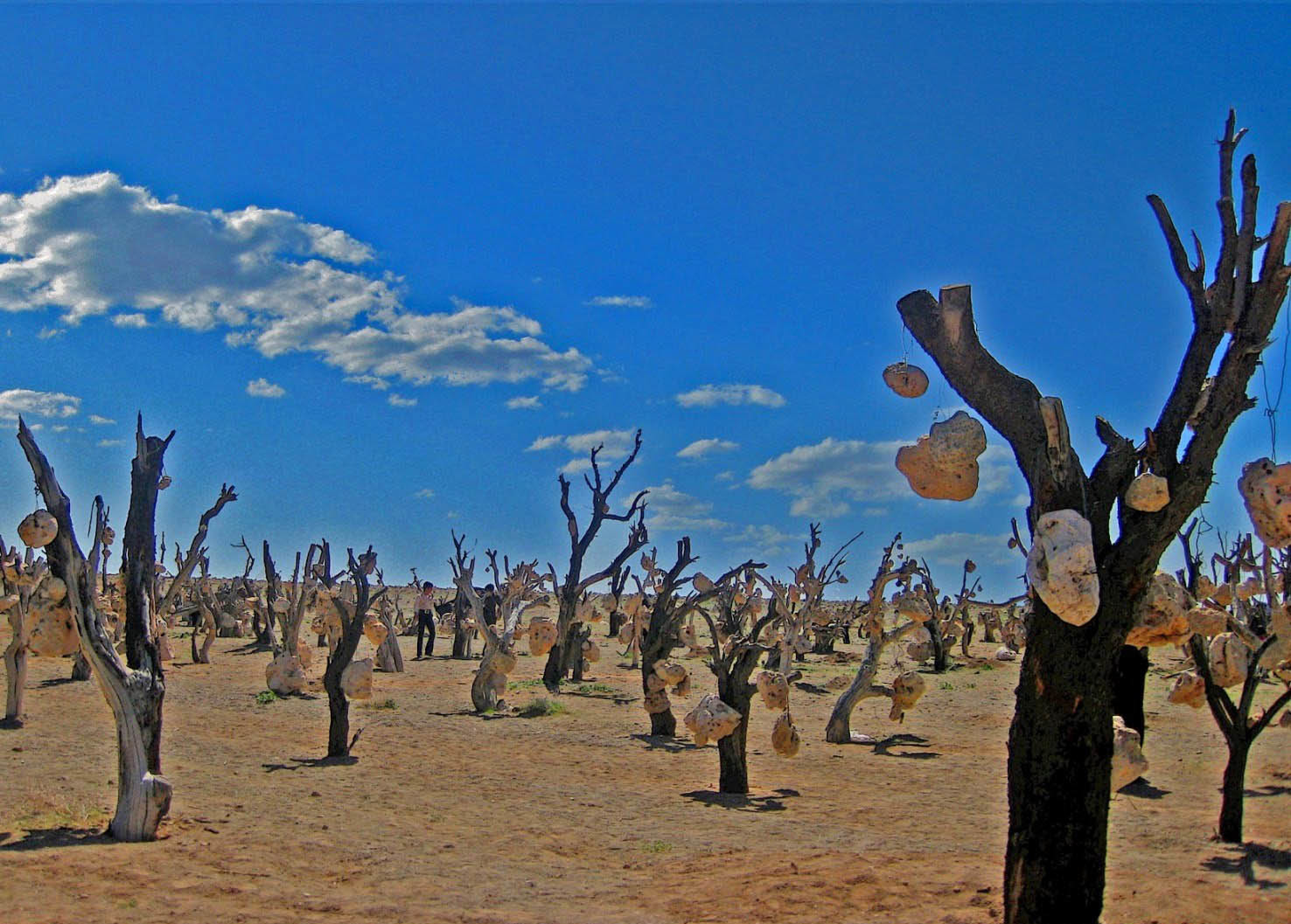 Bagh-e Sangi (in Persian: باغ سنگی) means: Stony Garden, a visitor attraction in Sirjan County, Kerman Province of Iran.